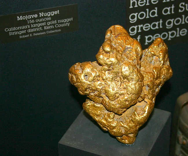 Mojave Nugget, a gold nugget weighing 156 ounces. From the Stringer district, Kern County, California.